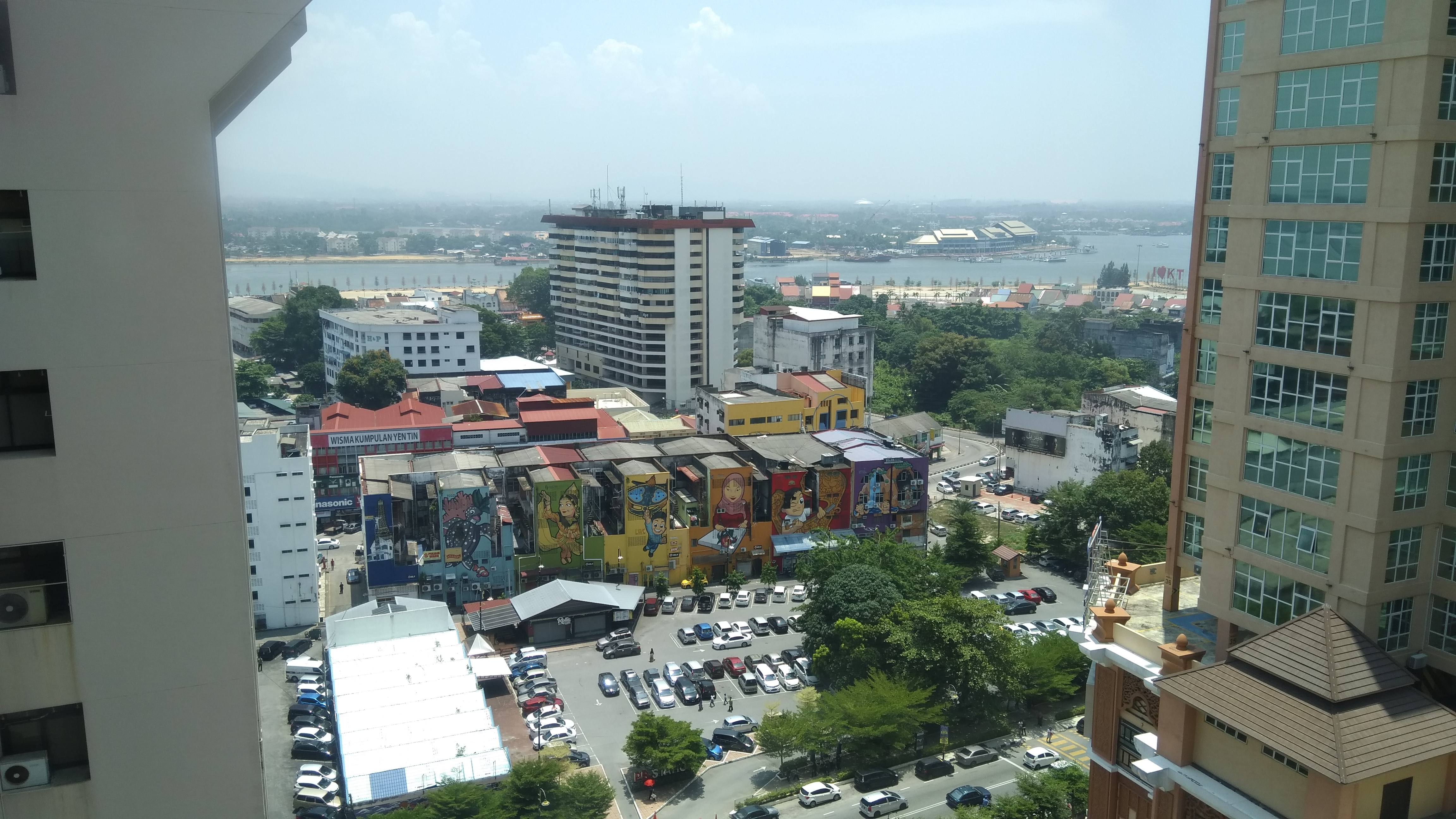 A view of Kuala Terengganu from PB Square.